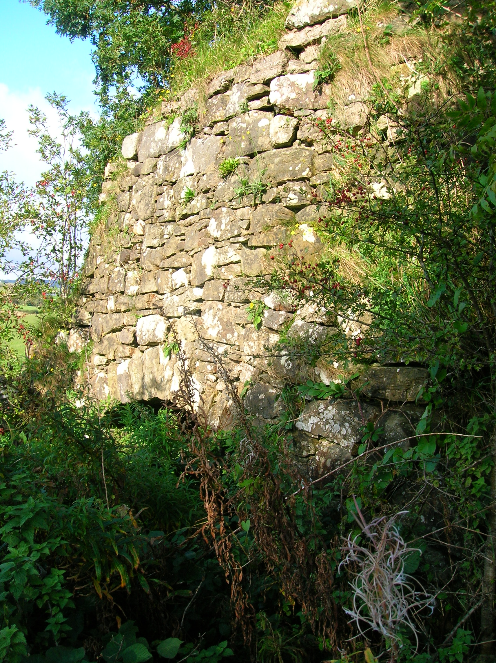 Flashwood Limekiln front